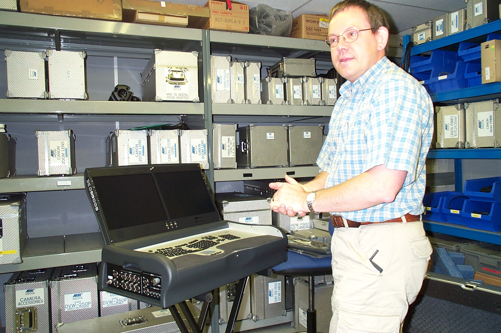 Bill Lovell († 2013) head of digital and 3D at Arri Media with df-cineHD hard disc recorder